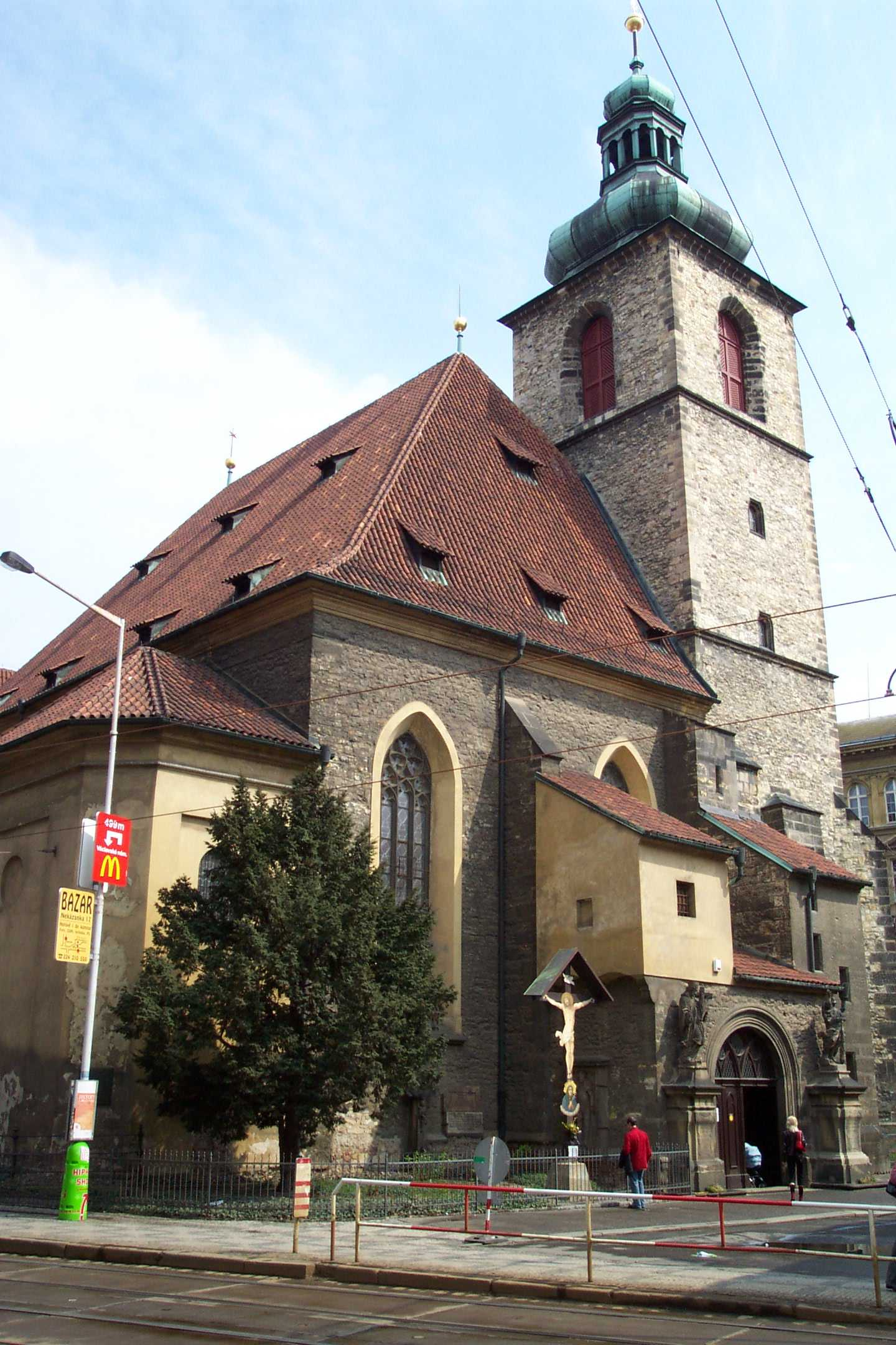 Church Saint Henri near Senovážné náměstí in Prague